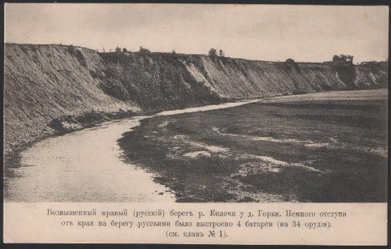 Old Russian postcard printed by Sherer, Nabgoltz & Co., Moscow, before 1917 and showing 'The high right (Russian) shore of the Koloch River near the village of Gorki. A little away from the edge, on the shore, the Russians built 4 batteries (for 34 guns). (See Scheme 1).'